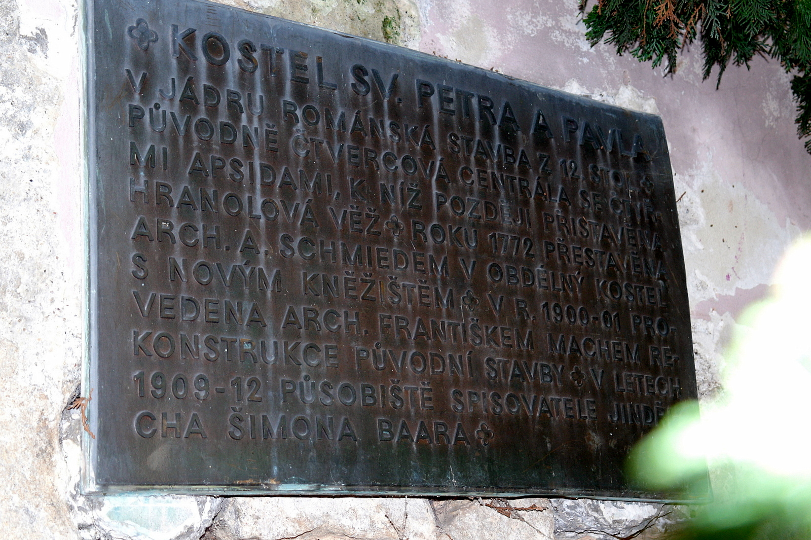 Church of Saints Peter and Paul, Řeporyjské square, Hasičů str., Prague-Řeporyje. The memorial plaque with the history of the church. Writer J. Š. Baar worked here as a spiritual administartor in the years 1909-1912.